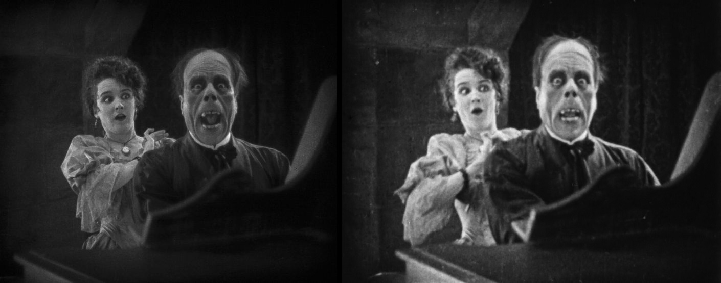 The famous unmasking scene from The Phantom of the Opera (Universal, 1925) with Lon Chaney and Mary Philbin. Image is a composite of 2 frames from different prints of the film, both of which are public domain.